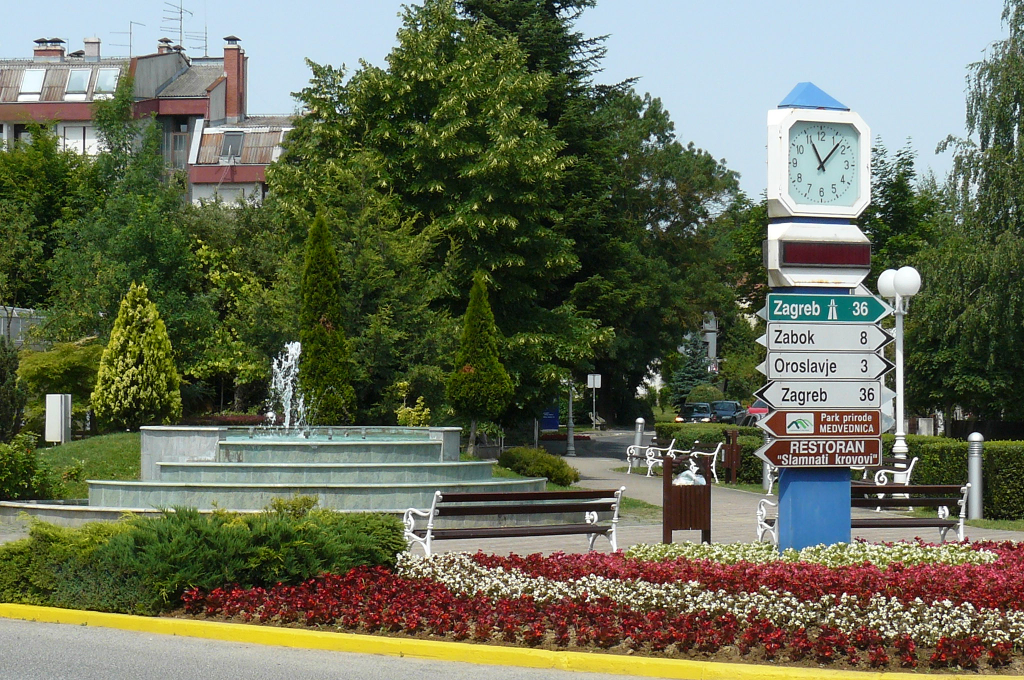 Stubicke Toplice.